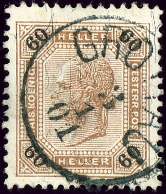 Austrian KK 60 heller stamp, cancelled at GROTTAU in 1901, Bohemia